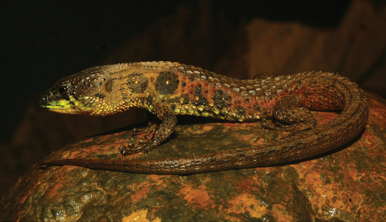 Potamites montanicola (CORBIDI, 08324) from Peru.